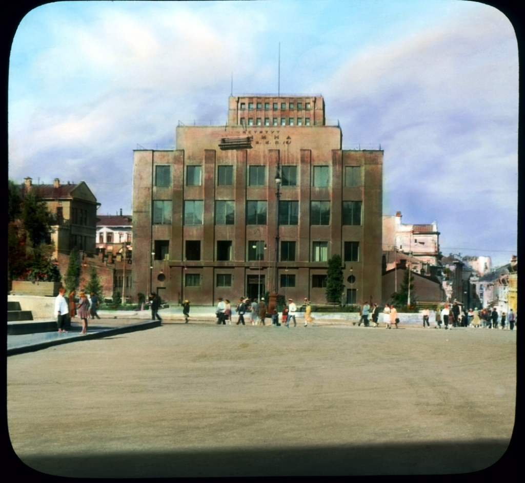 The Lenin Institute Building, Soviet Square, Moscow, 1931. Photograph by Branson DeCou (1892-1941)